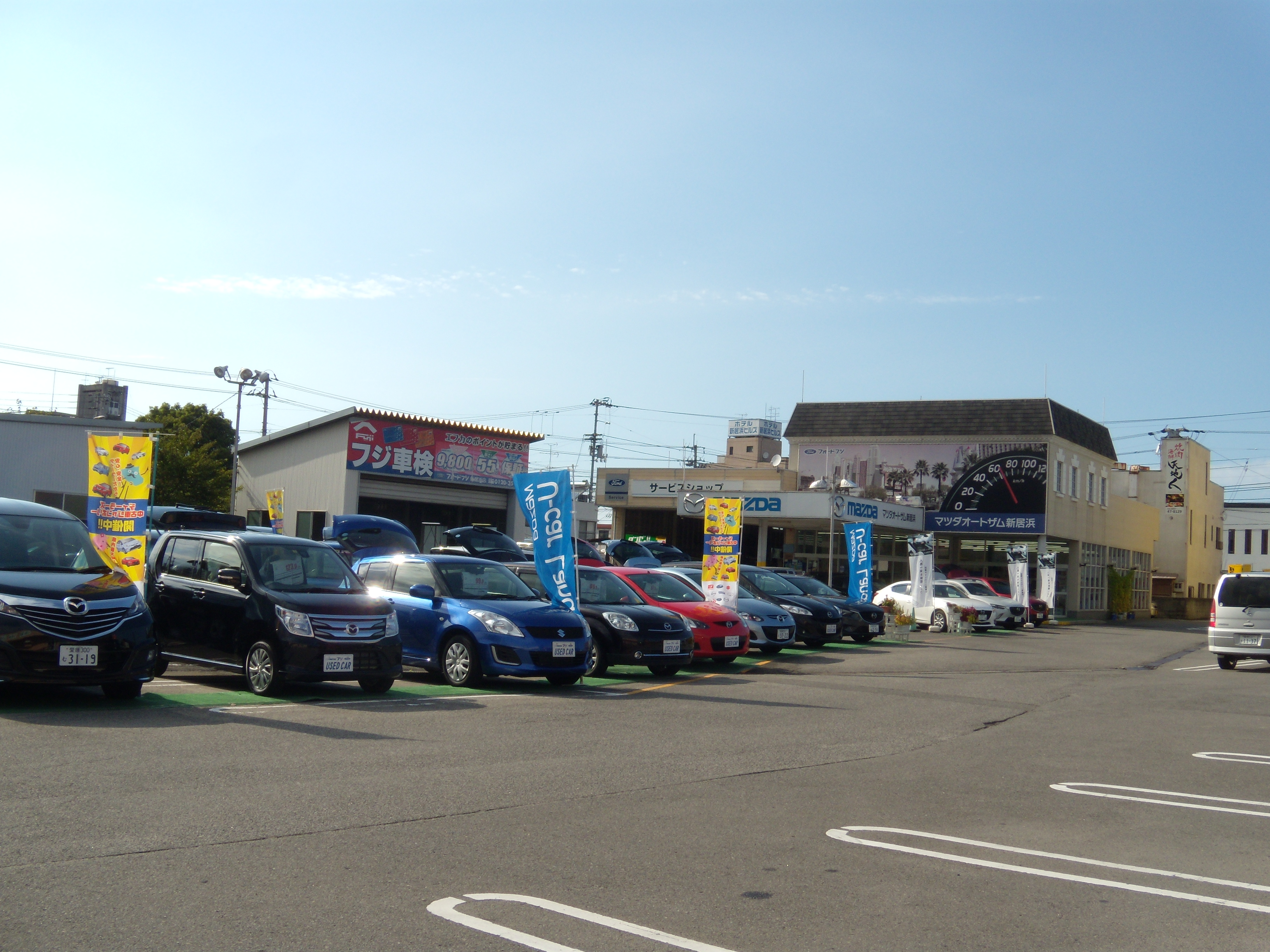 Mazda Autozam Niihama, Ford Fuji, Niihama, Ehime